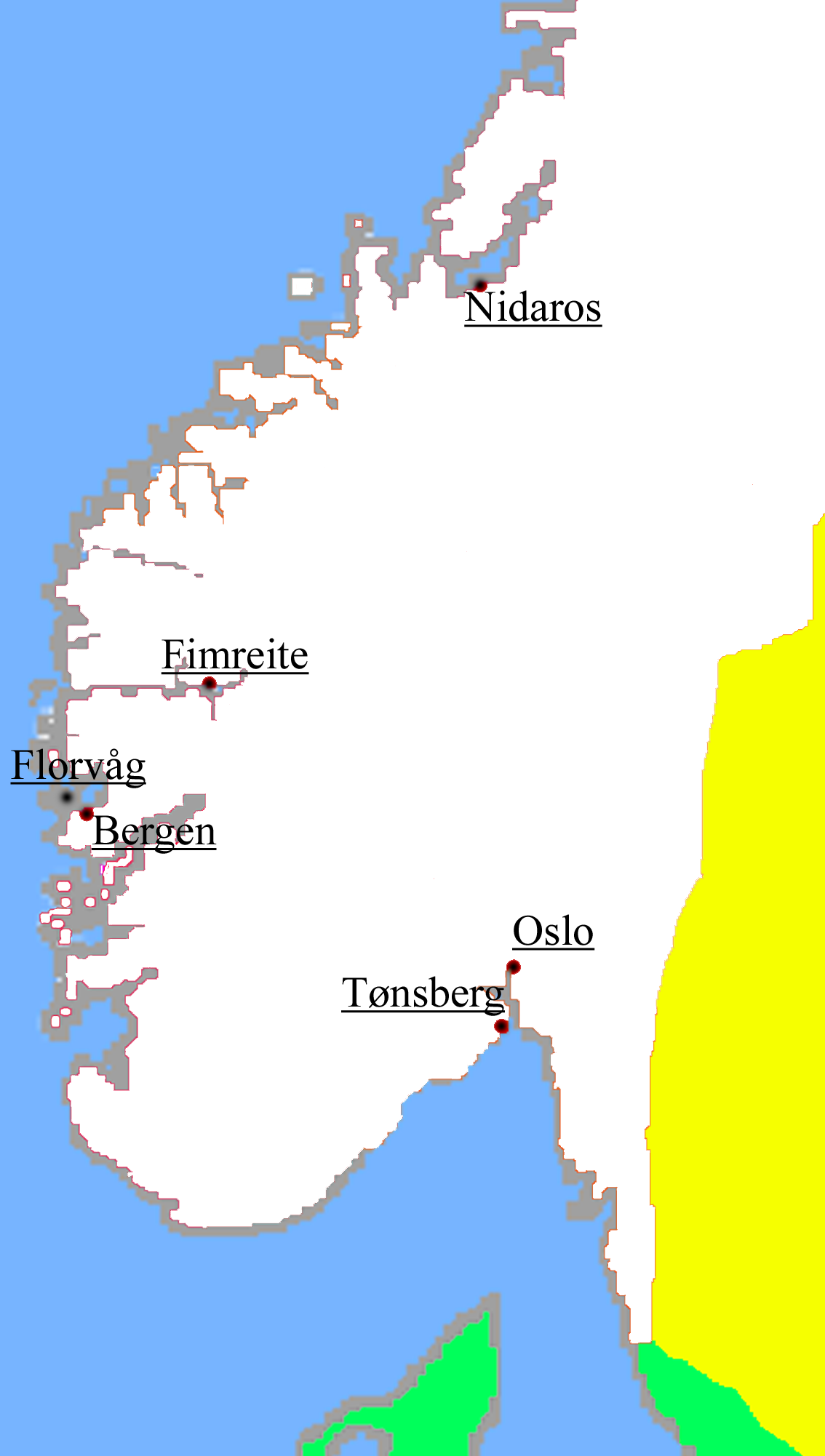 Locations of the most important battles during the reign of king Sverre Sigurdsson.